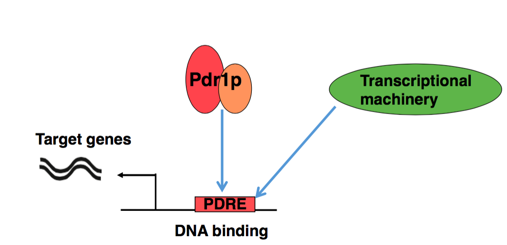 Schematic representation of Pdr1p transcription factor and its transcriptional activation